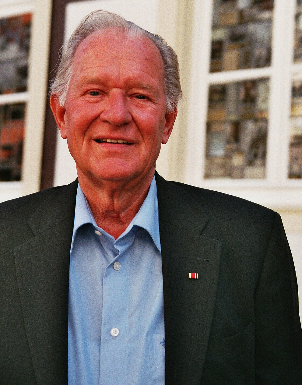 German mining historian Hans Röhrs in Mettingen, Kreis Steinfurt, North Rhine-Westphalia, Germany.